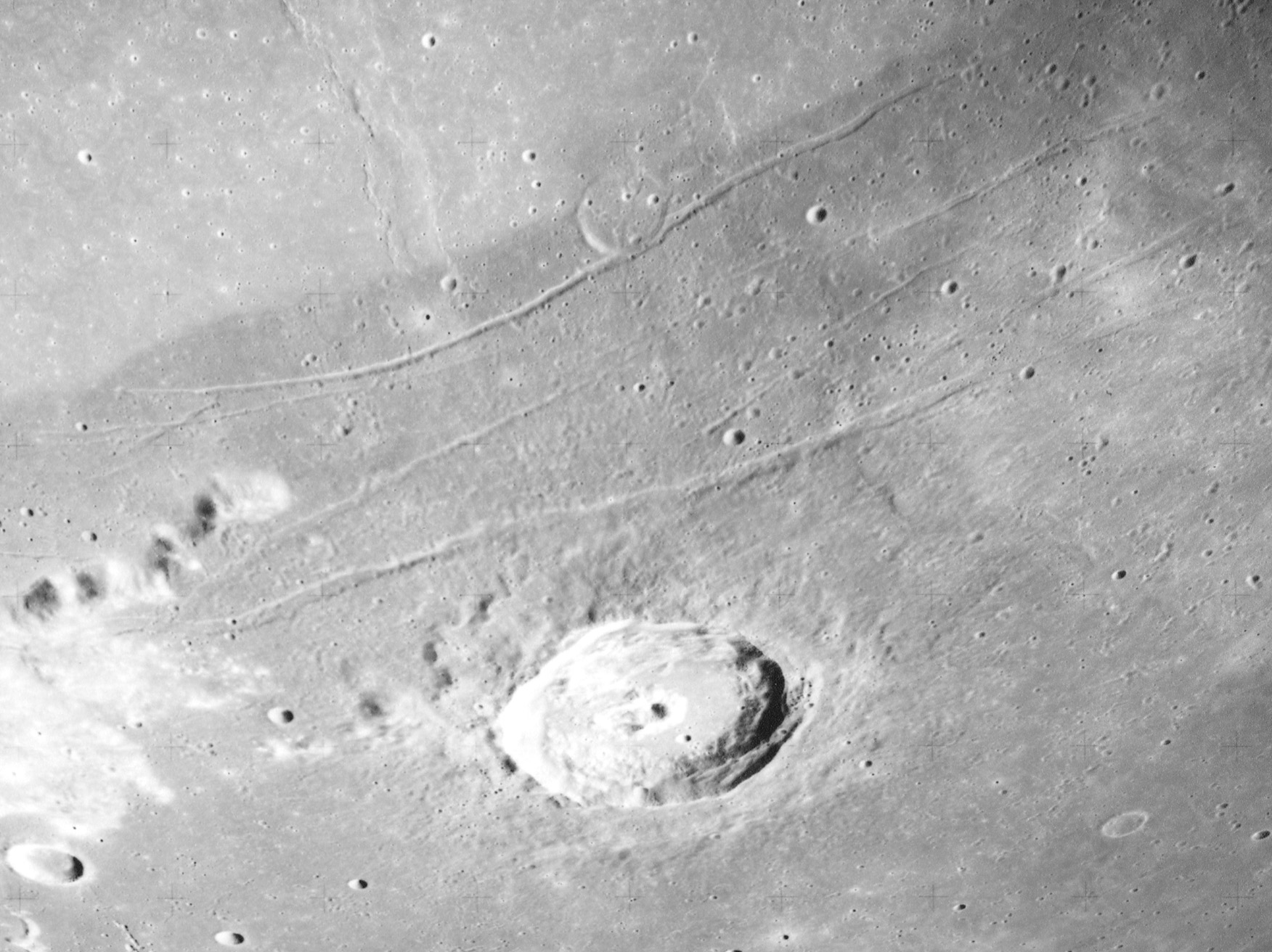 Plinius and Rimae Plinius, on the moon.